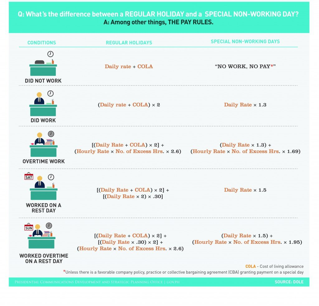 A graphic explaining the difference in pay rates between regular holidays and special non-working days in the Philippines from the Presidential Communications Development and Strategic Planning Office, citing the Department of Labor and Employment (DOLE)